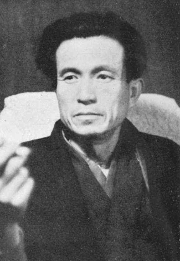 Yoichi Nakagawa